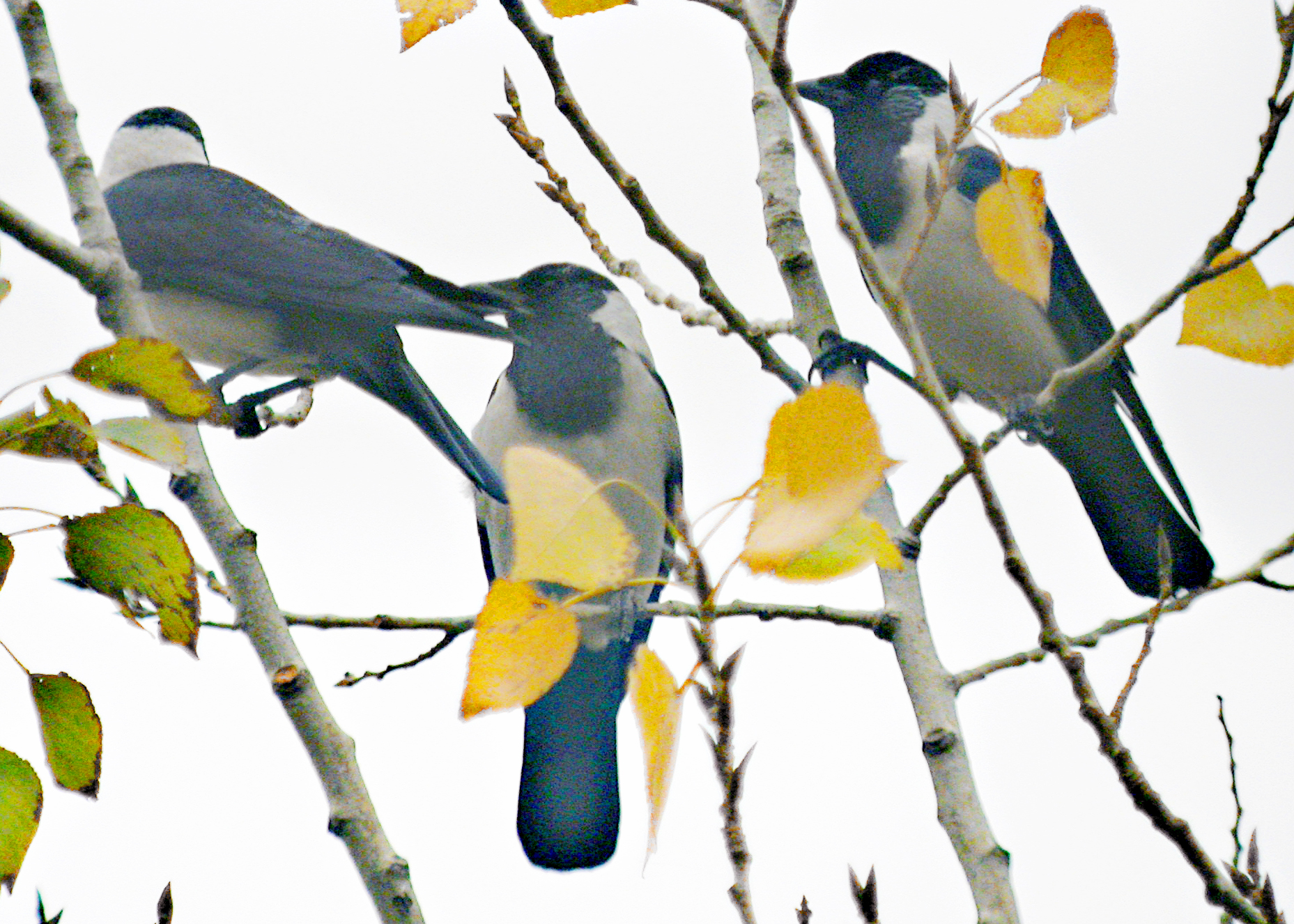 Daurian Jackdaw Corvus dauuricus, Beijing